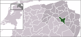 Locator map of Dutch municipalities in Groningen (LocatieHoogezand-Sappemeer.png)